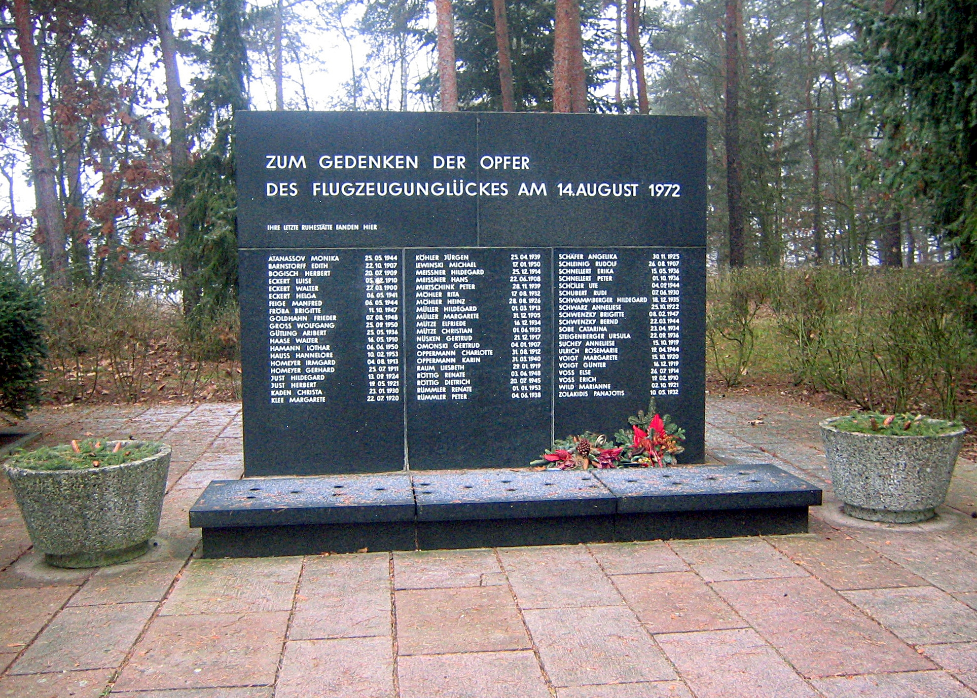 Memorial for Interflug Aircrash 1972